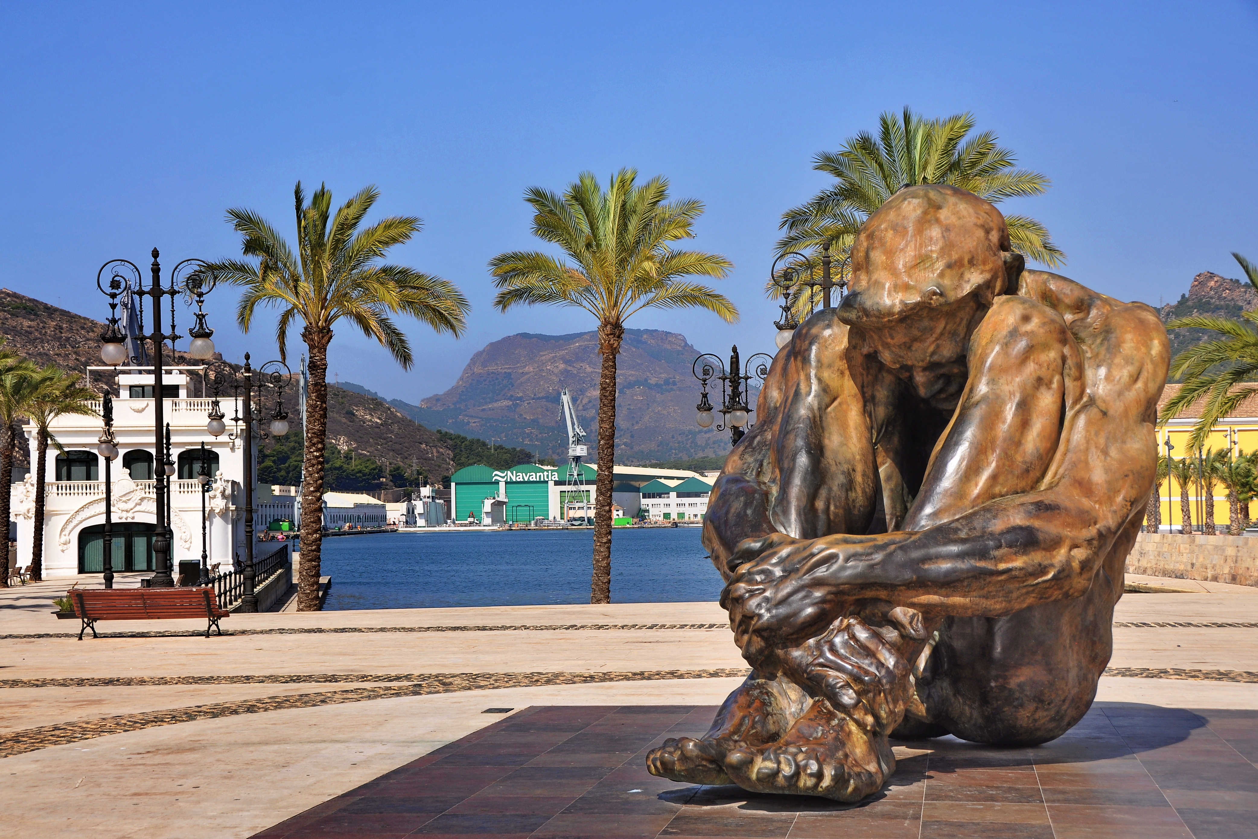 El Zulo, Víctor Ochoa sculpture in honor of the victims of terrorism. Cartagena, Region of Murcia (Spain).